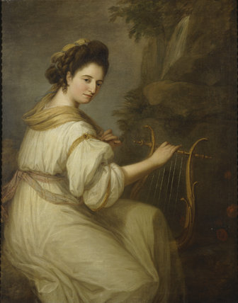 Portrait of Jemima Ord (died 1806), who married Thomas Charles Bigge in 1772.